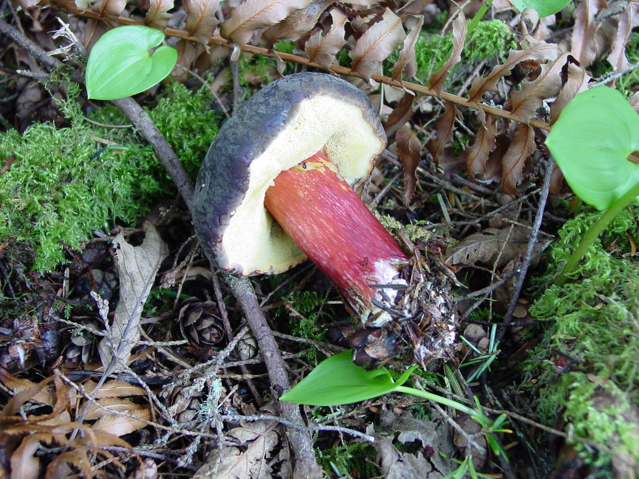 Boletus zelleri (Zellers Bolete)